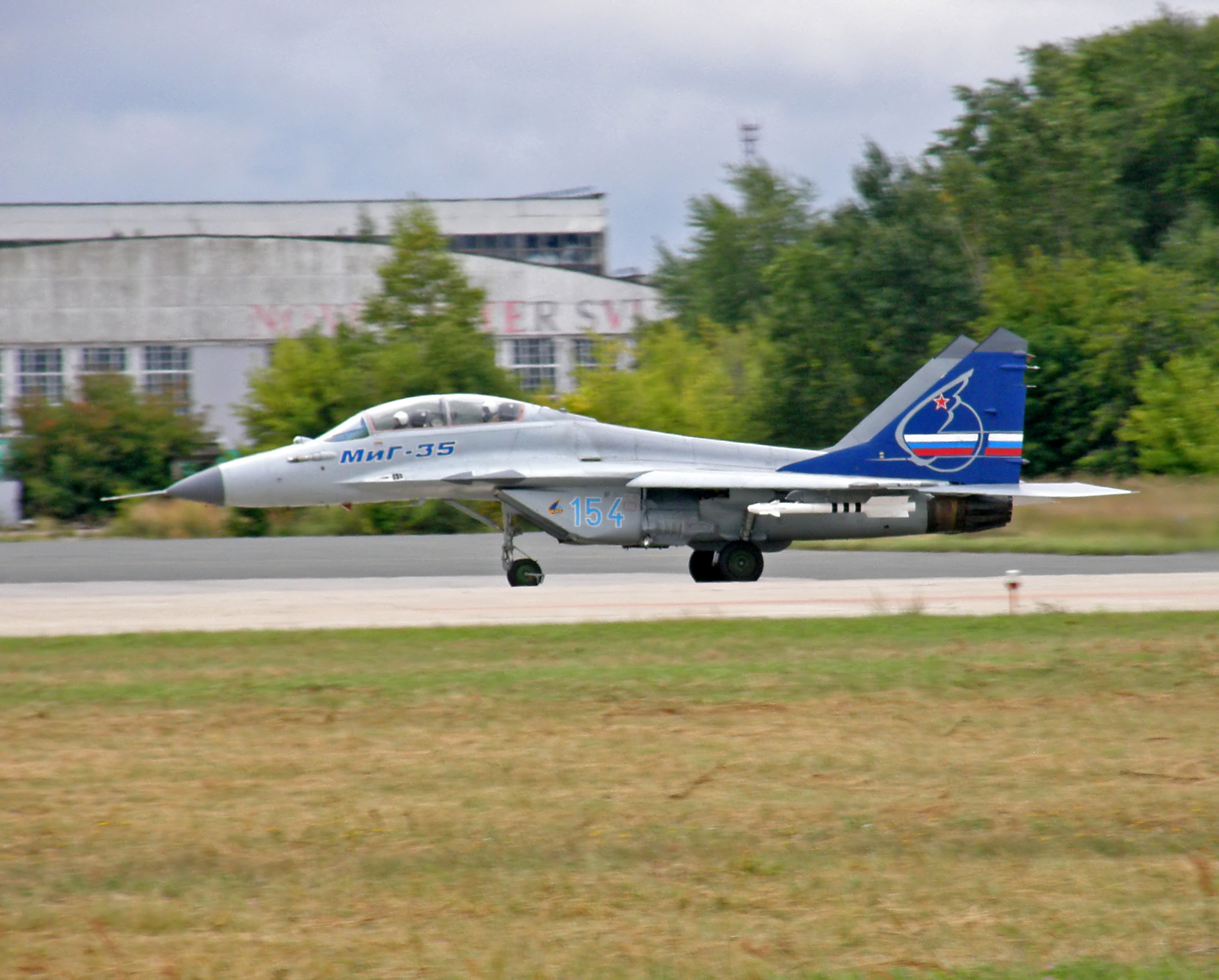 Micoyan&Gurevich MiG-35